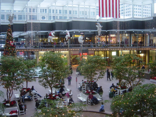 Photo taken by Bobak Ha'Eri. 11-25-05. Please observe license and properly cite in use outside Wikipedia.